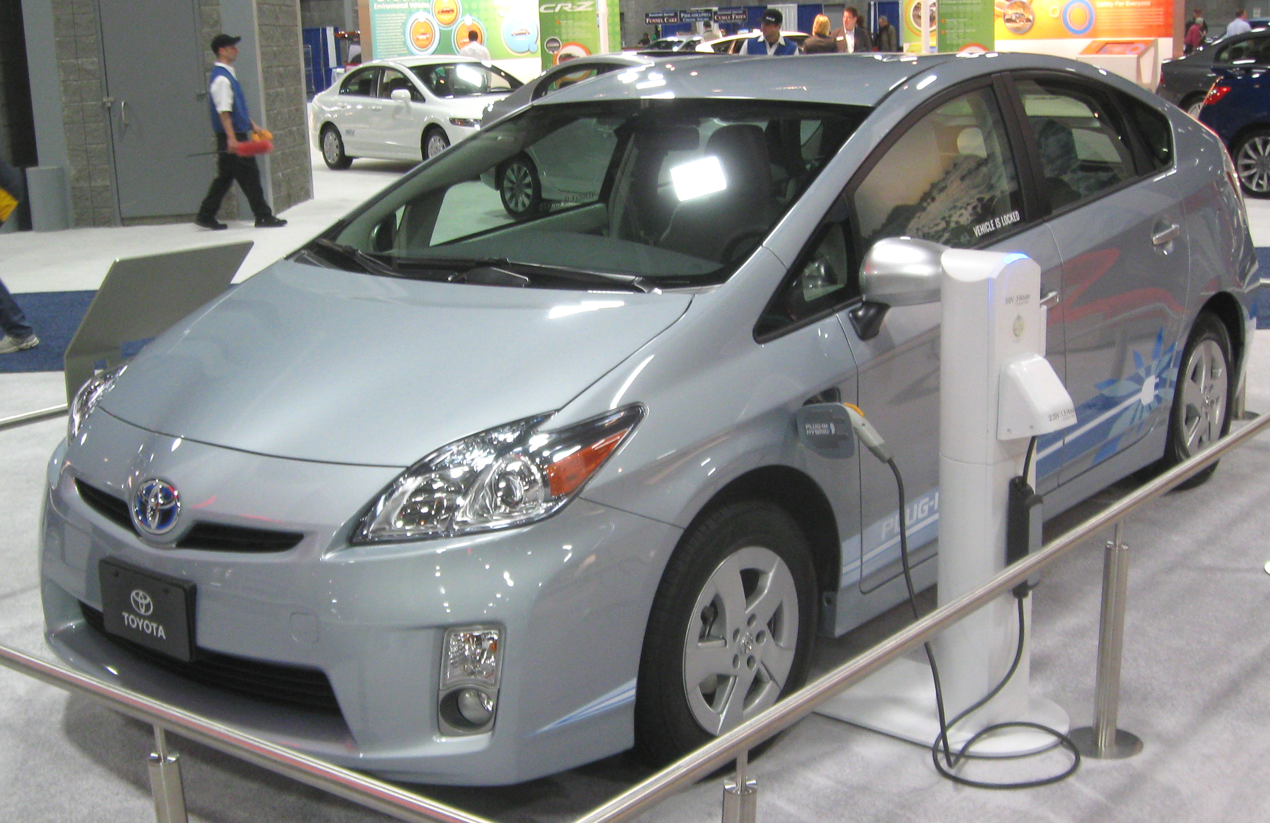 Toyota Prius plug-in photographed at the 2010 Washington Auto Show.